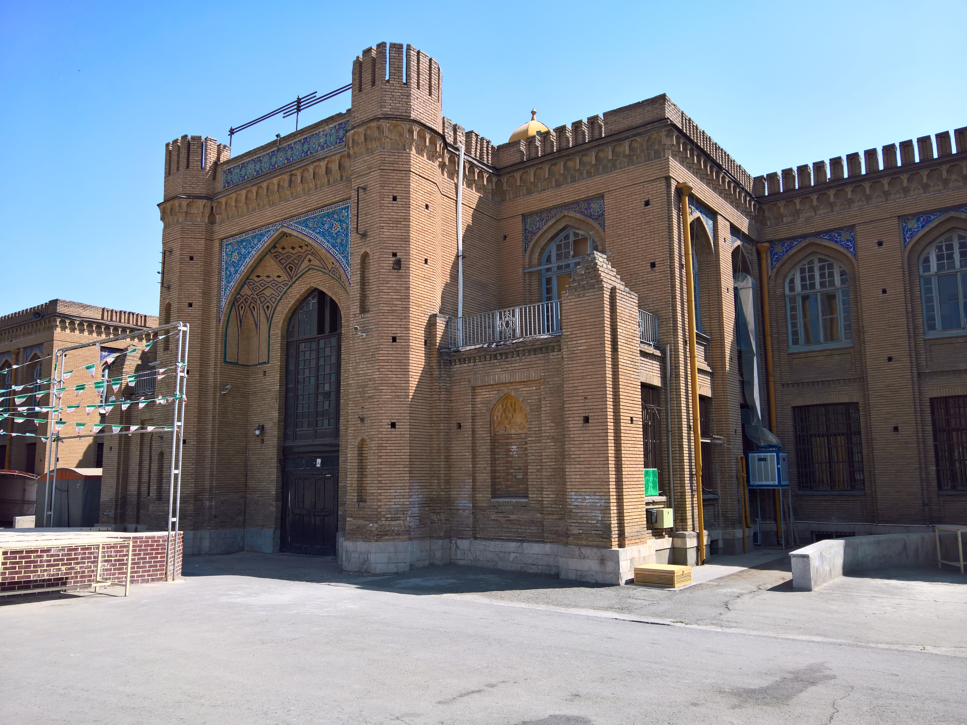 Alborz High School, north facade.